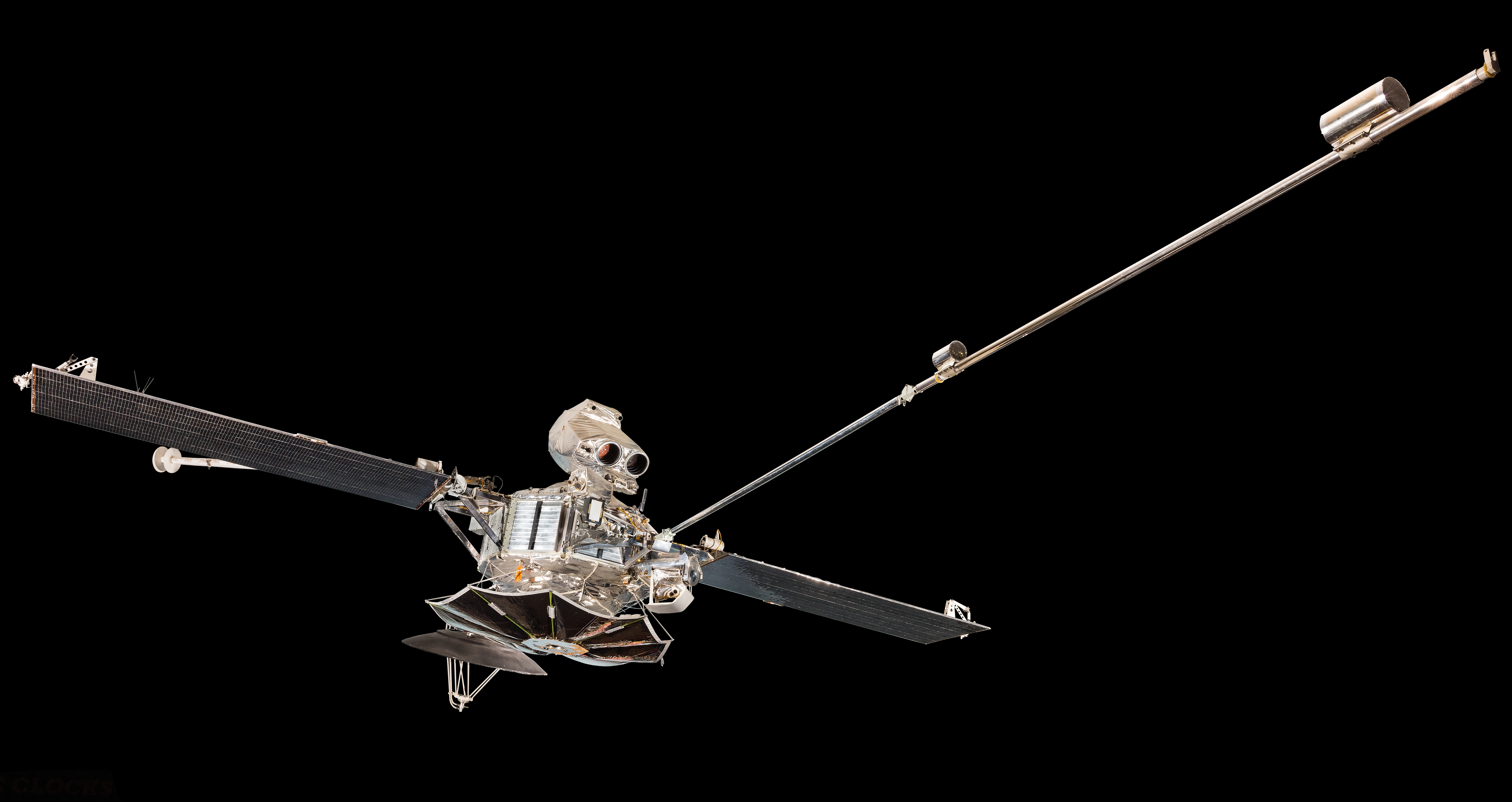 Photo of the Mariner 10 flight spare